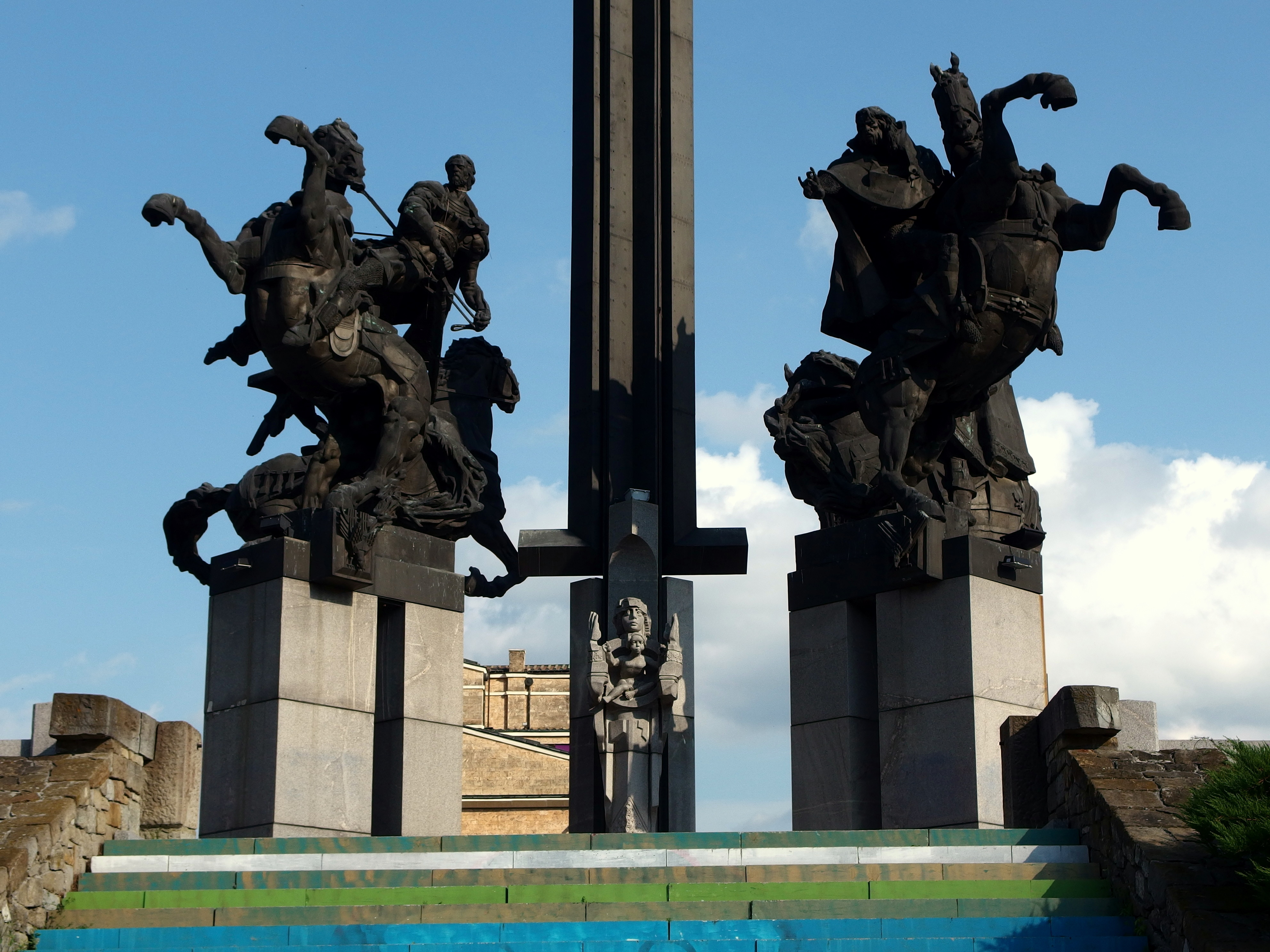 2014-06-20 in Veliko Tarnovo.